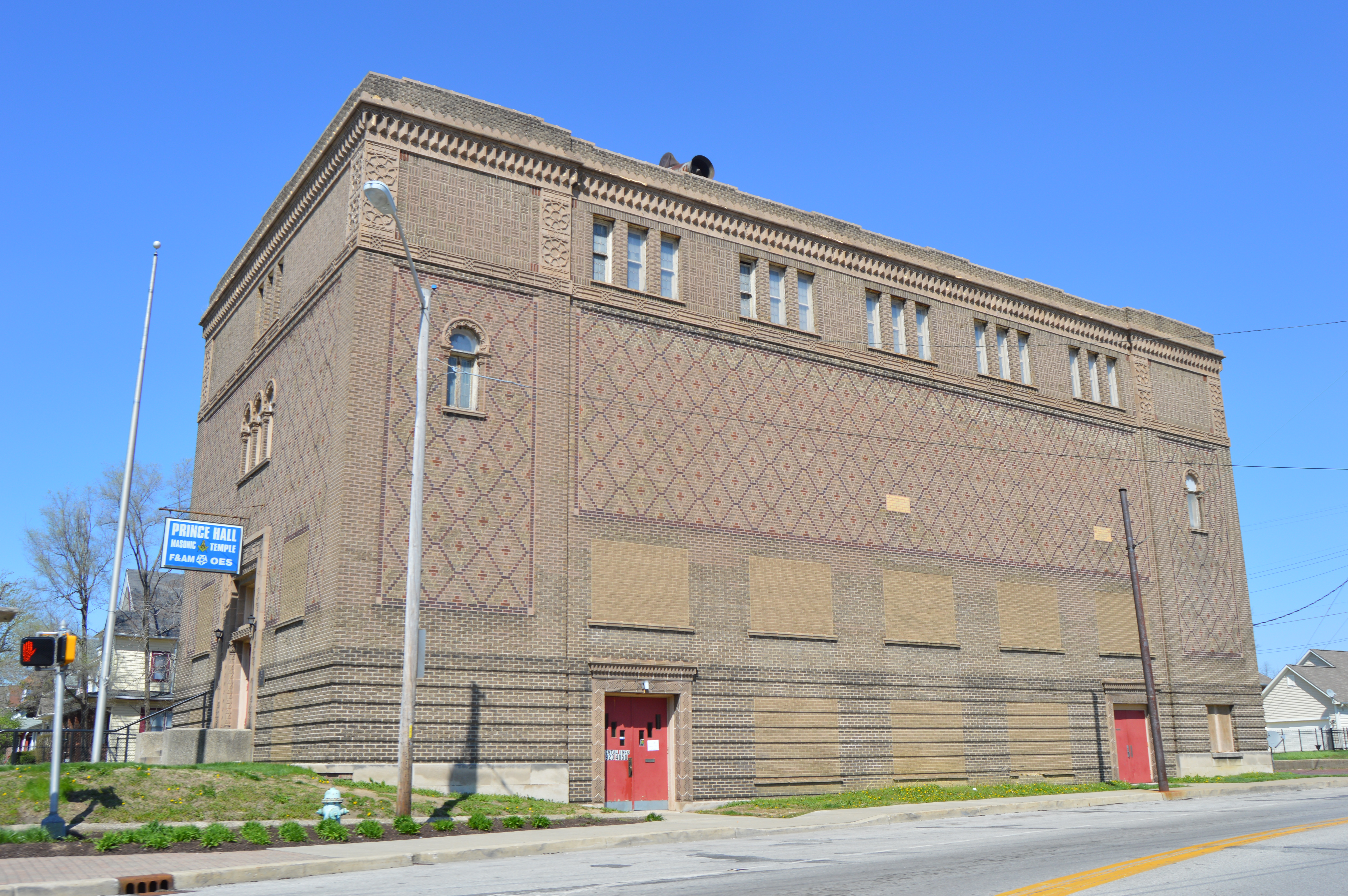 Front and southern side of the Oriental Lodge No. 500, located at 2201 Central Avenue in Indianapolis, Indiana, United States. Built in 1914, it is listed on the National Register of Historic Places.